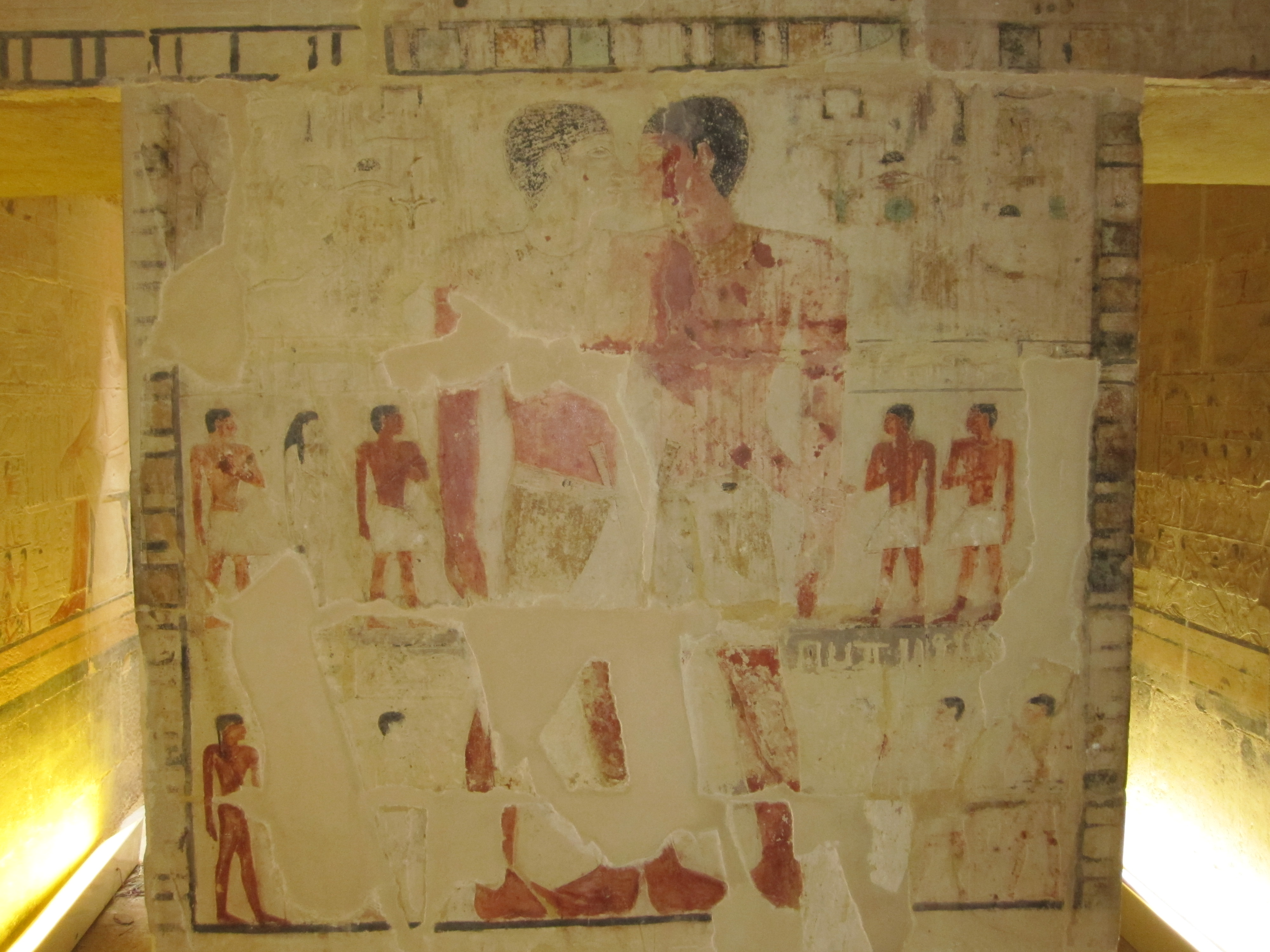 Niankhkhnum and Khnumhotep are depicted embracing one another in this scene from their joint mastaba (tomb). The two men are speculated to be lovers, although some Egyptologists argue that they may have been brothers or twins. More information about the mastaba can be found here. See this map for the mastaba's location in the sector of the Pyramid of Unas, and this map for its location within the broader North Saqqara necropolis.